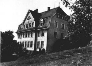 Reifensteiner Schule Schertlinhaus